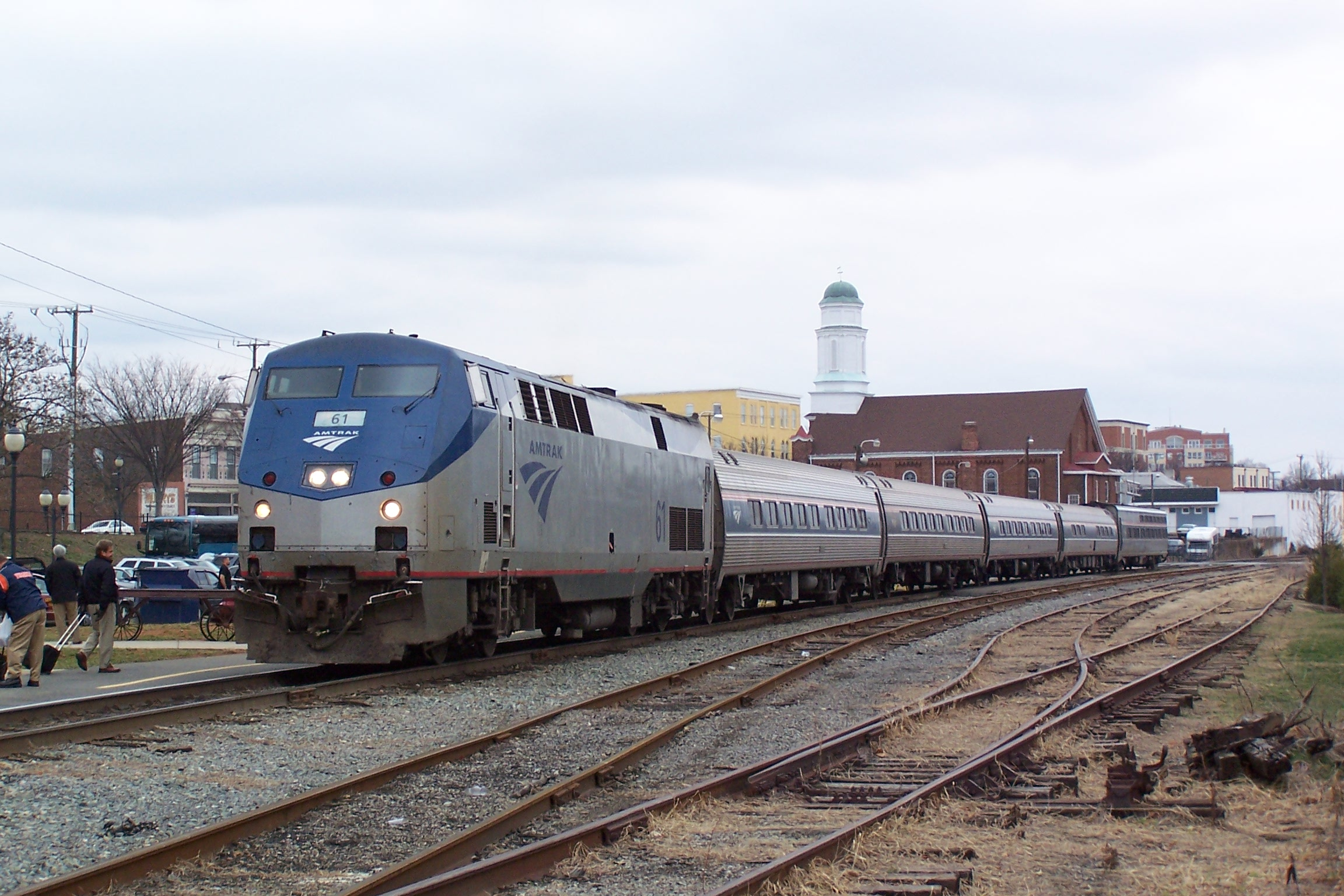 Amtrak's westbound Cardinal stopped in Charlottesville, Virginia on a cloudy, but mild January day.